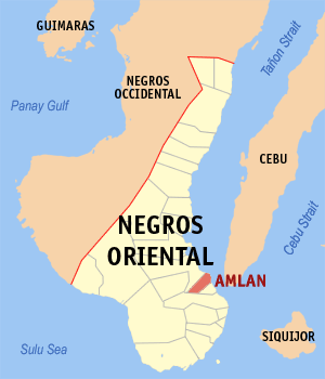 Map of Negros Oriental showing the location of Amlan